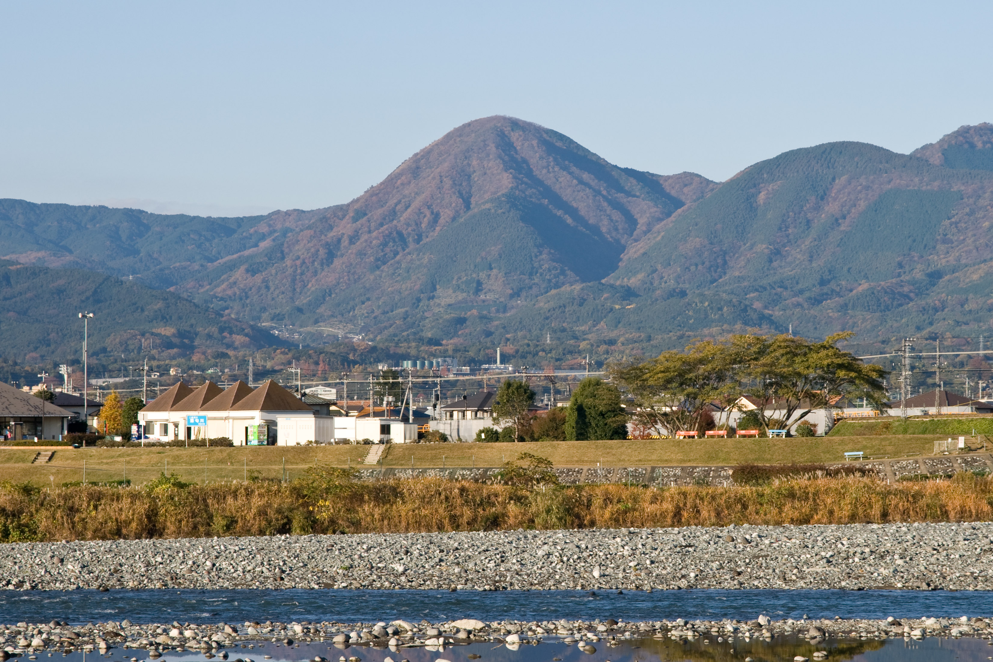 Mt.Yagura(矢倉岳 やぐらだけ Yagura-dake) in Ashigara Mountains, Kanagawa Pref., Japan.